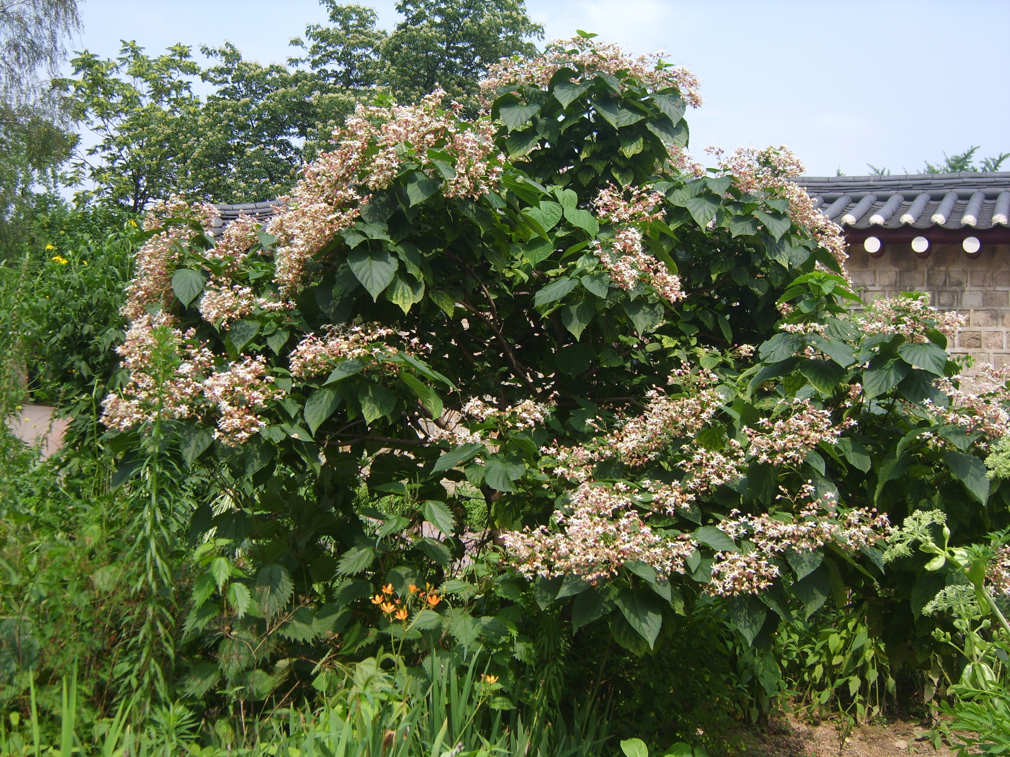 Clerodendrum trichotomum in Gyeongbokgung palace, Korea